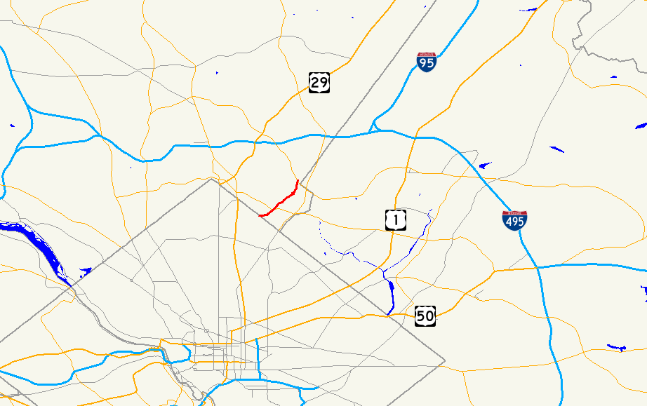 Map of Maryland Route 195